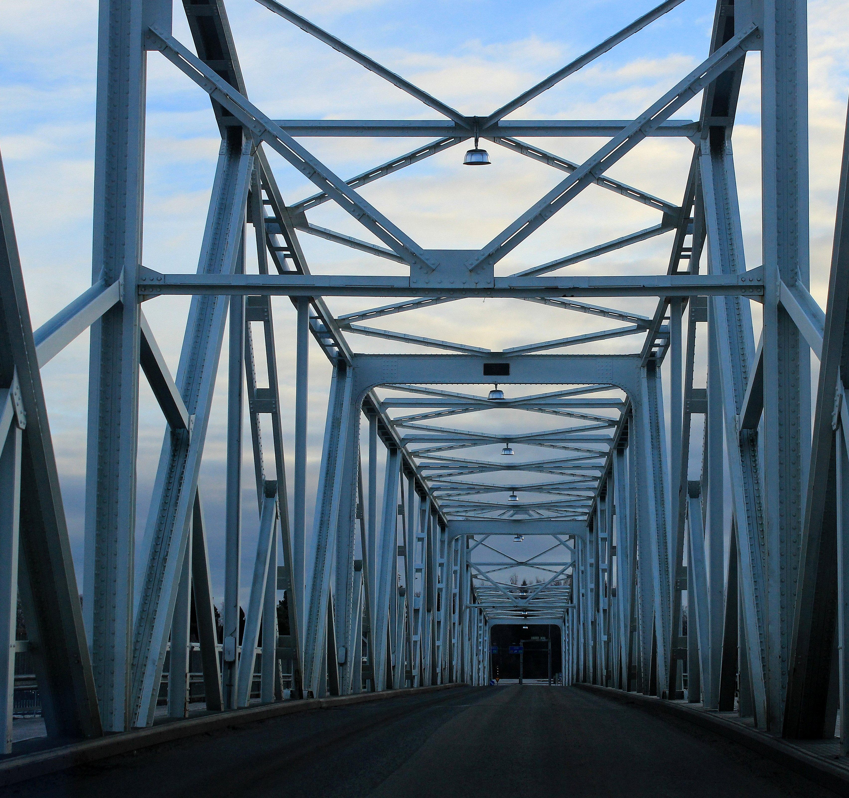 The Hannula Bridge over Tornionjoki river in Tornio, Finland.